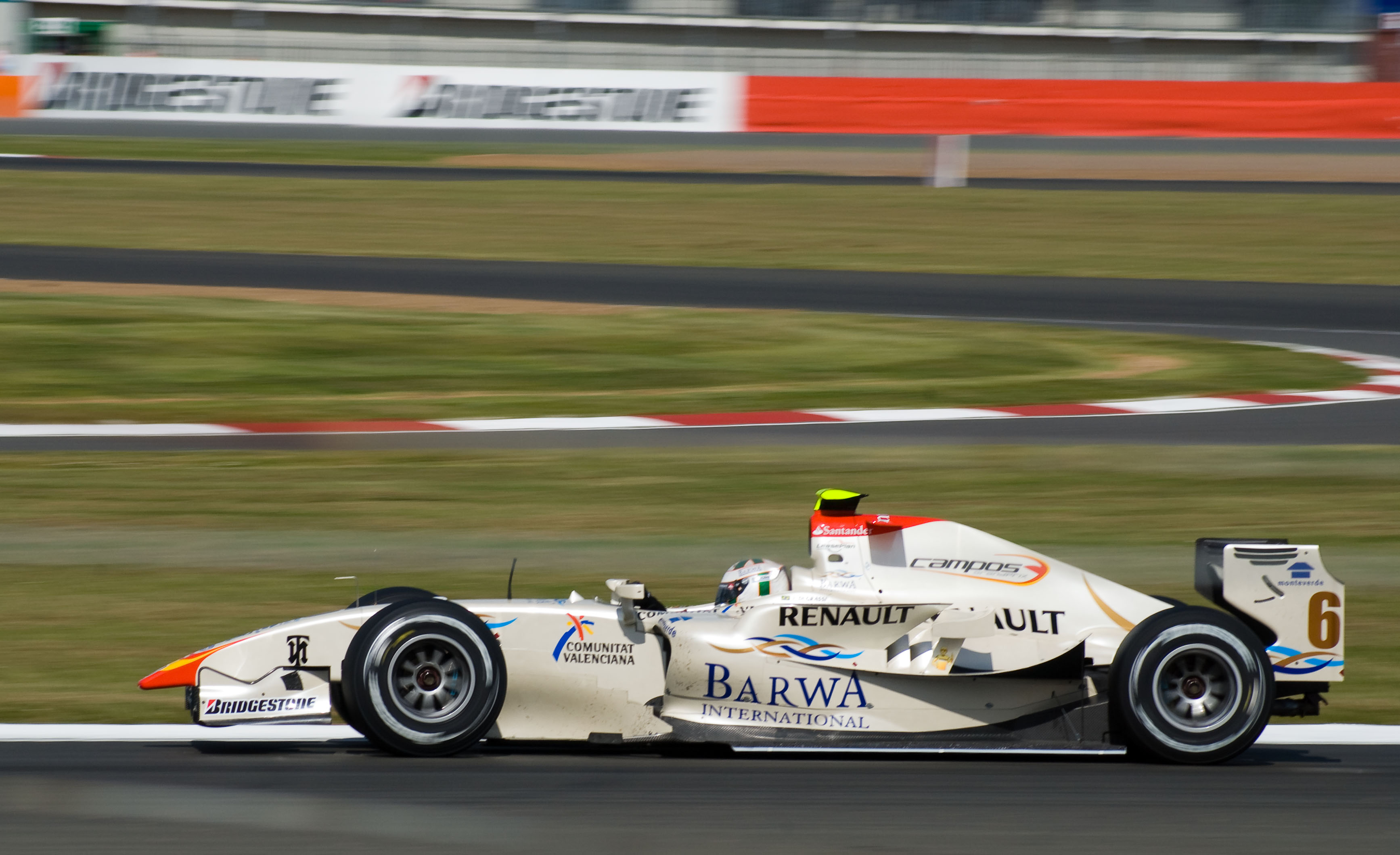 Lucas Di Grassi driving for Campos Grand Prix at the Silverstone round of the 2008 GP2 Series season.